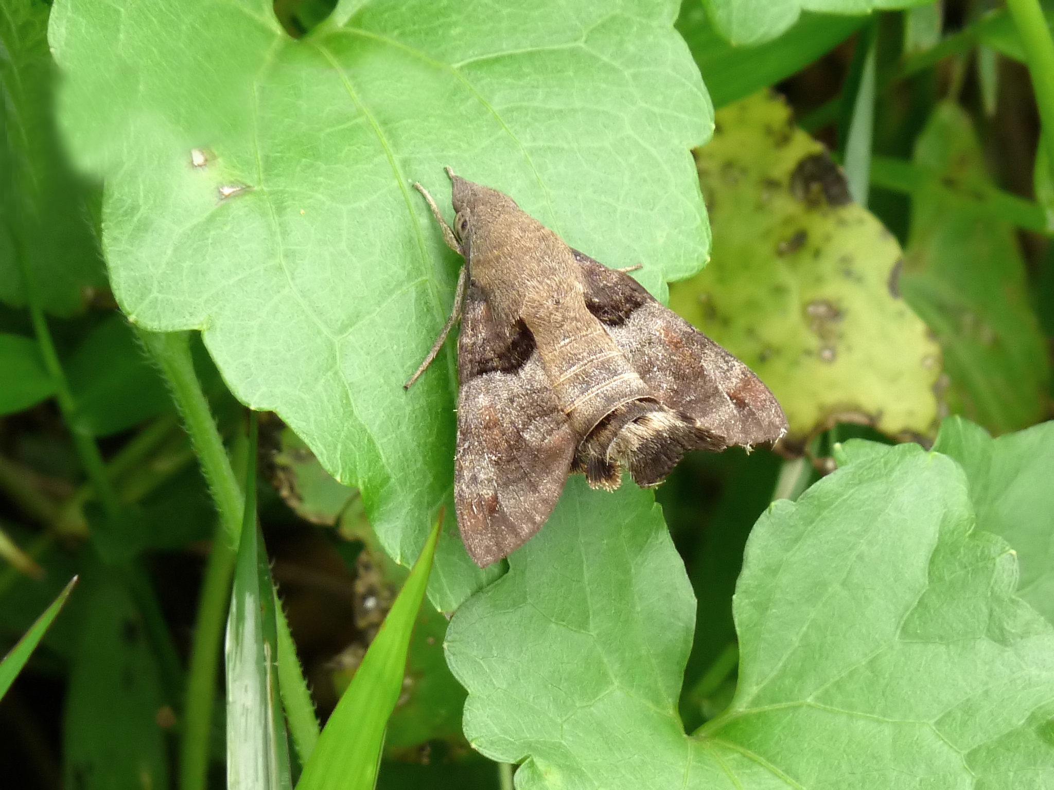 Macroglossum gyrans is a moth of the Sphingidae family. It is known from south-east Asia and Madagascar. Taken at Kadavoor, Kerala, India